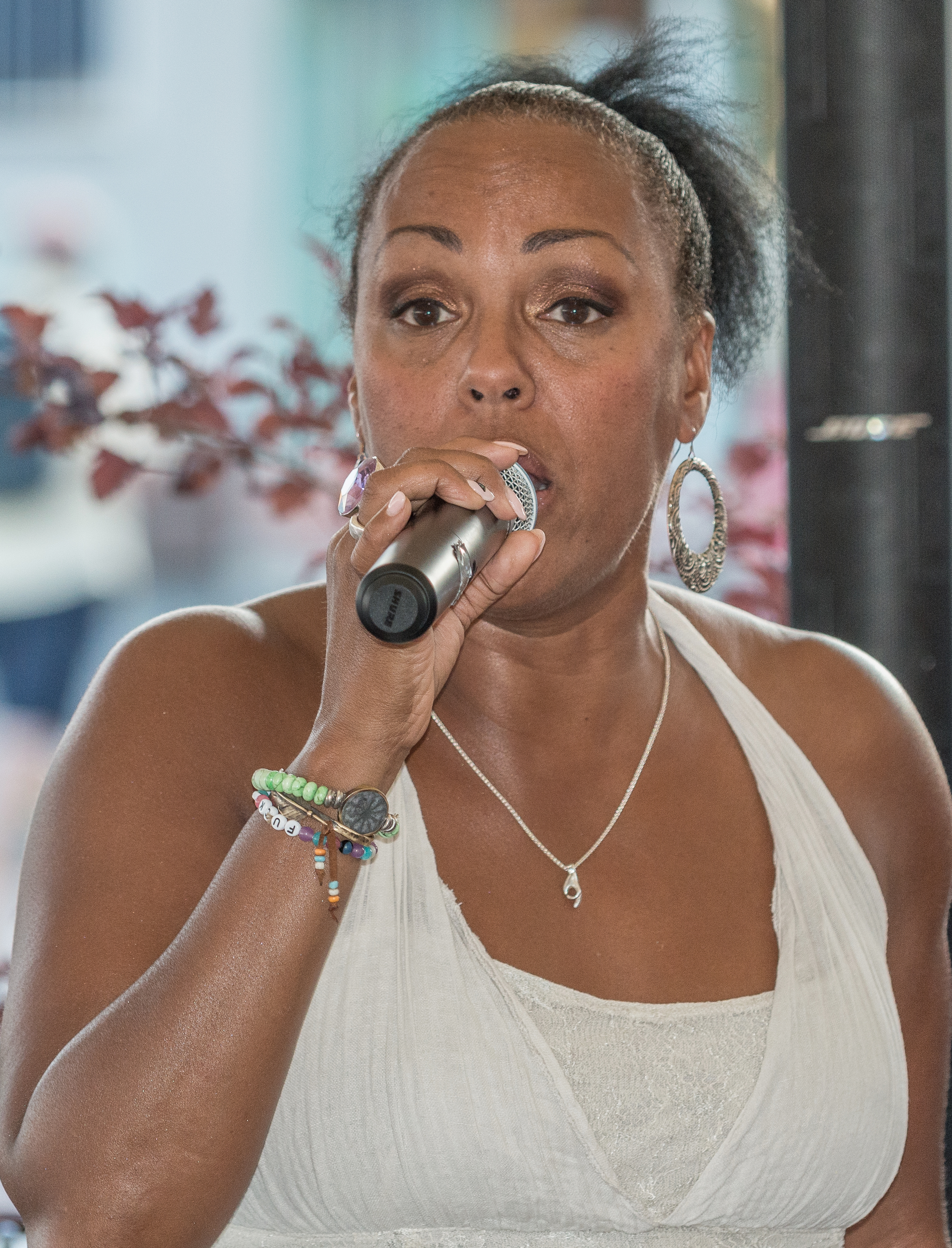 Nyakayo Shekoni July 2014